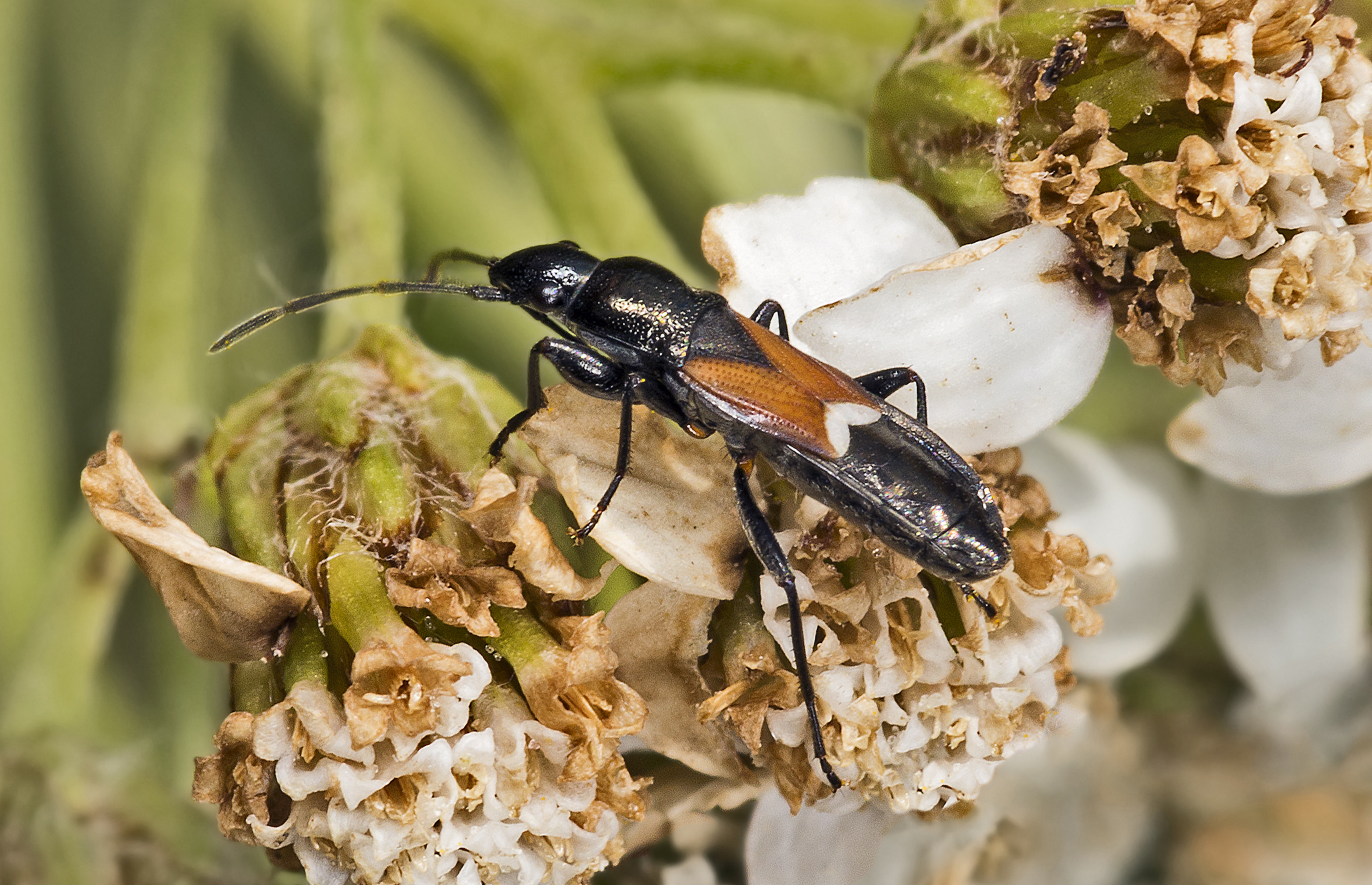 Pterotmetus staphyliniformis, shortwing form